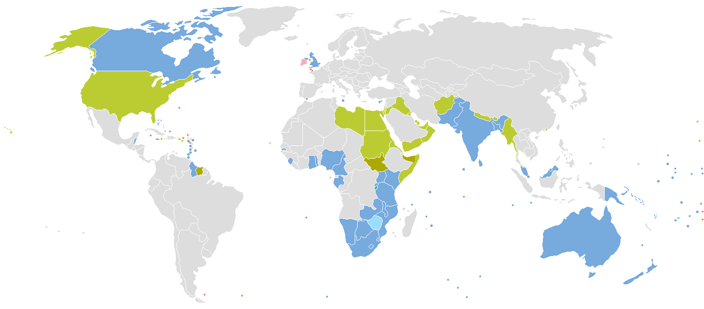 Map of the members states of the Commonwealth of Nations and the possible future members. member states Crown dependencies, overseas territories and associated states of member states suspended member states former member states former member states that have applied to rejoin sovereign states without historical links to the United Kingdom that have applied for membership sovereign states and their territories with historical links to the United Kingdom who have not applied for membership sovereign states and unrecognized states with historical links to the United Kingdom that have applied for membership